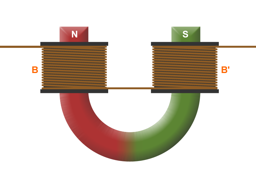 electroima